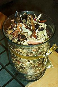 A potpourri vase